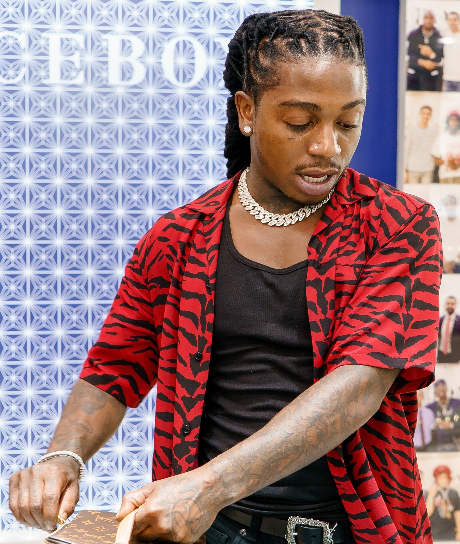 Jacquees Icebox 2019